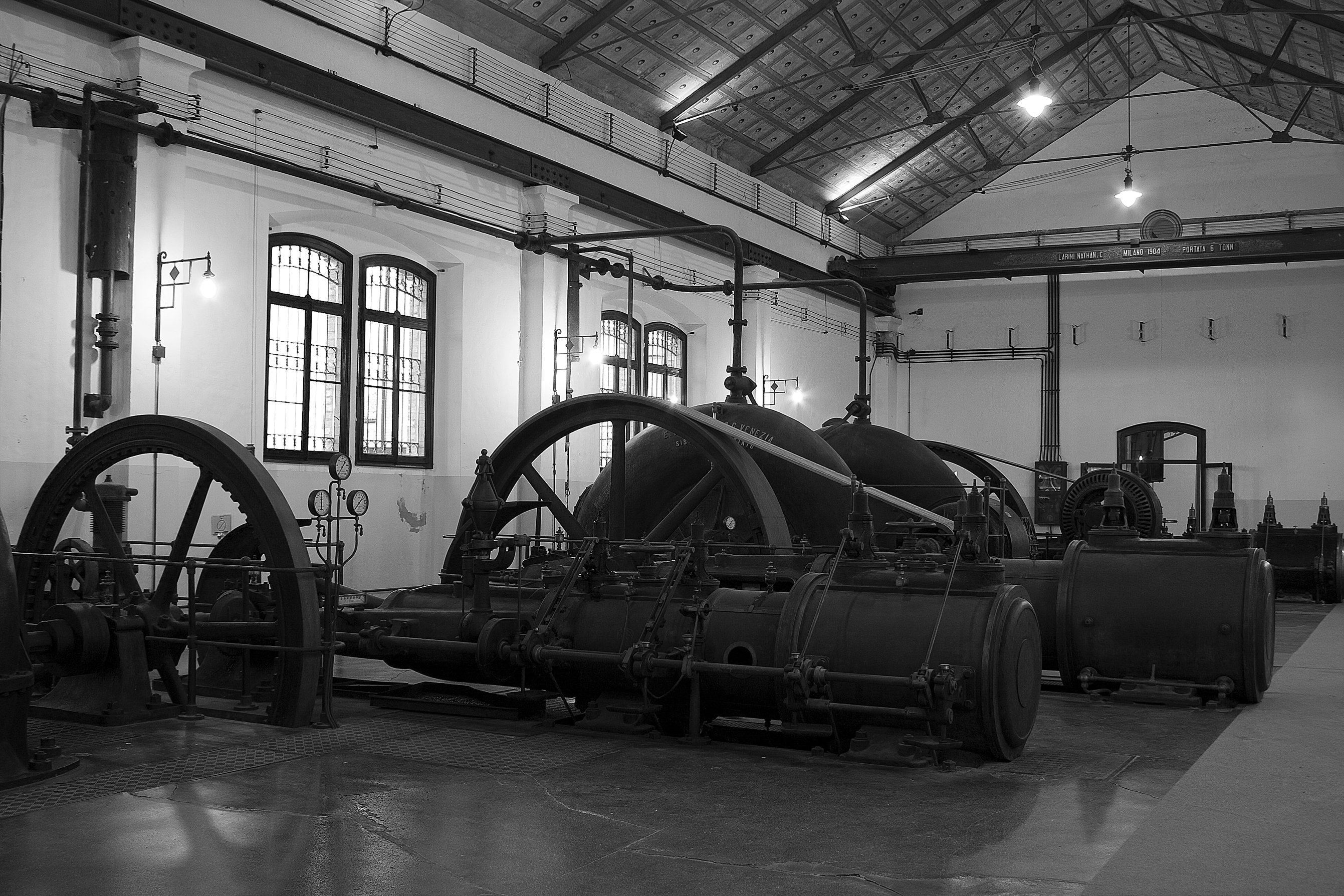 Cà Vendramin's water pumping station in Taglio di Po, Veneto – Italy.